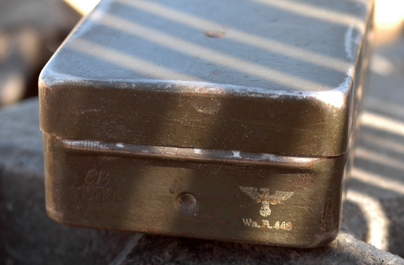 Heereswaffenamt, acceptance stamp 1939 on a container for weapon accessories